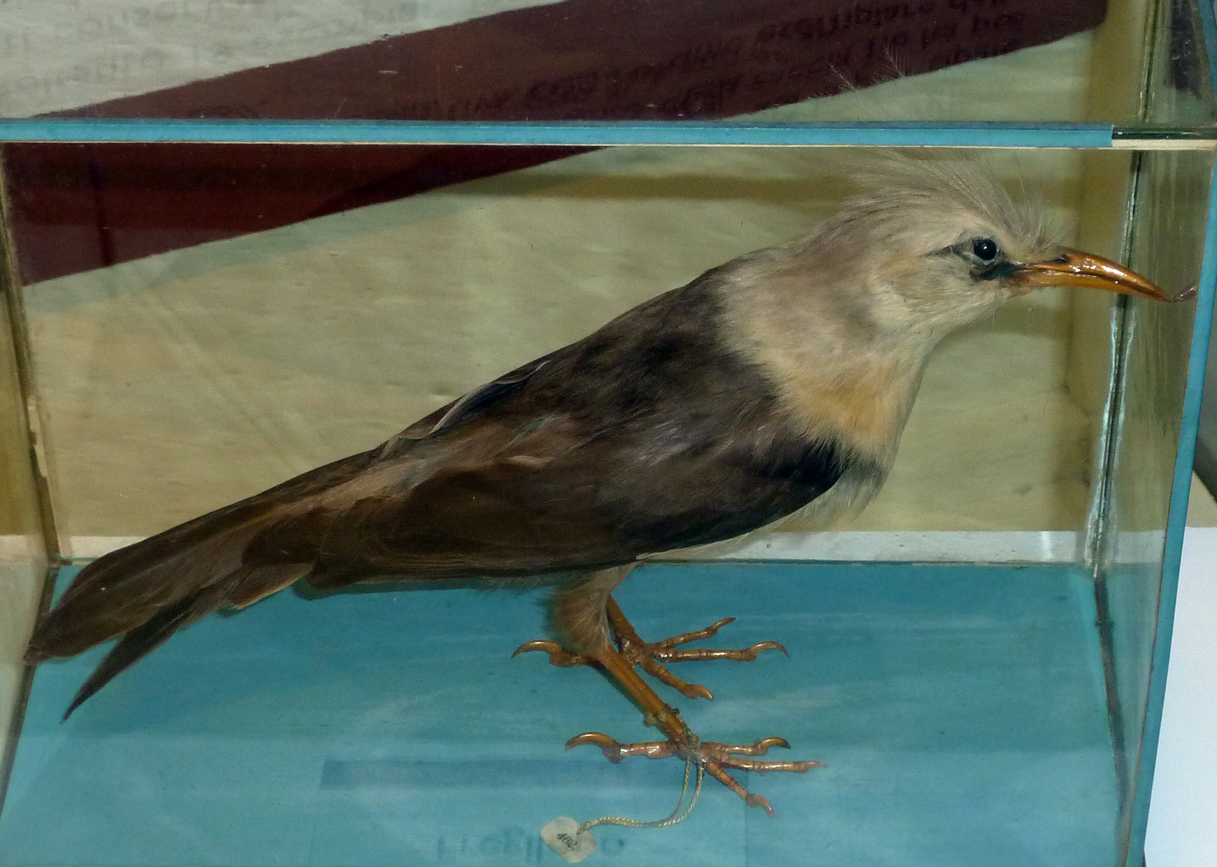 Fregilupus varius Calci